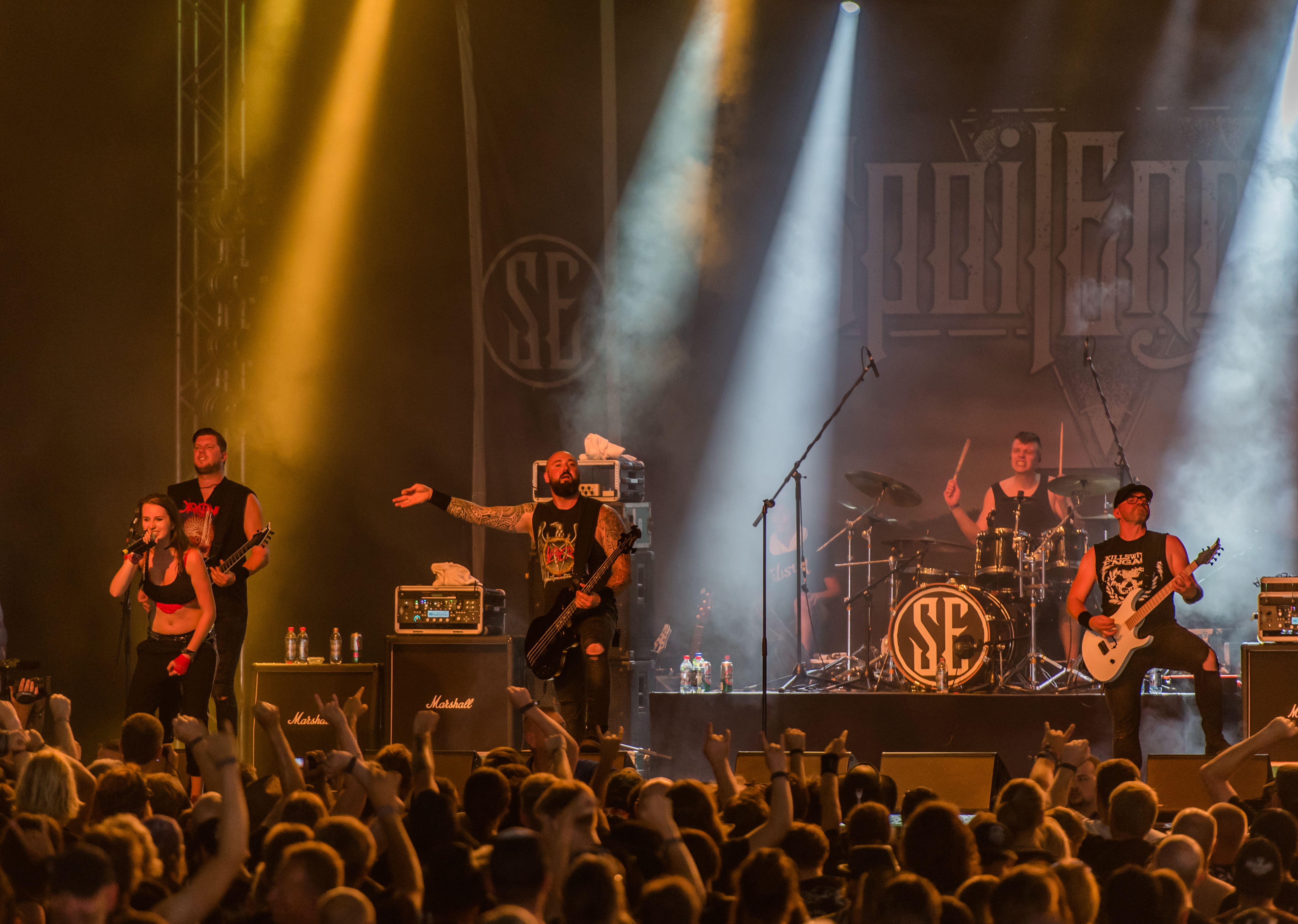 Spoil Engine playing at Wacken Open Air 2018